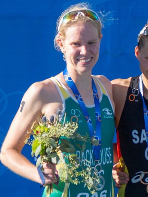 Gillian Backhouse at Flower Ceremony of U23 Women Championship at 2014 ITU World Triathlon Grand Final Edmonton